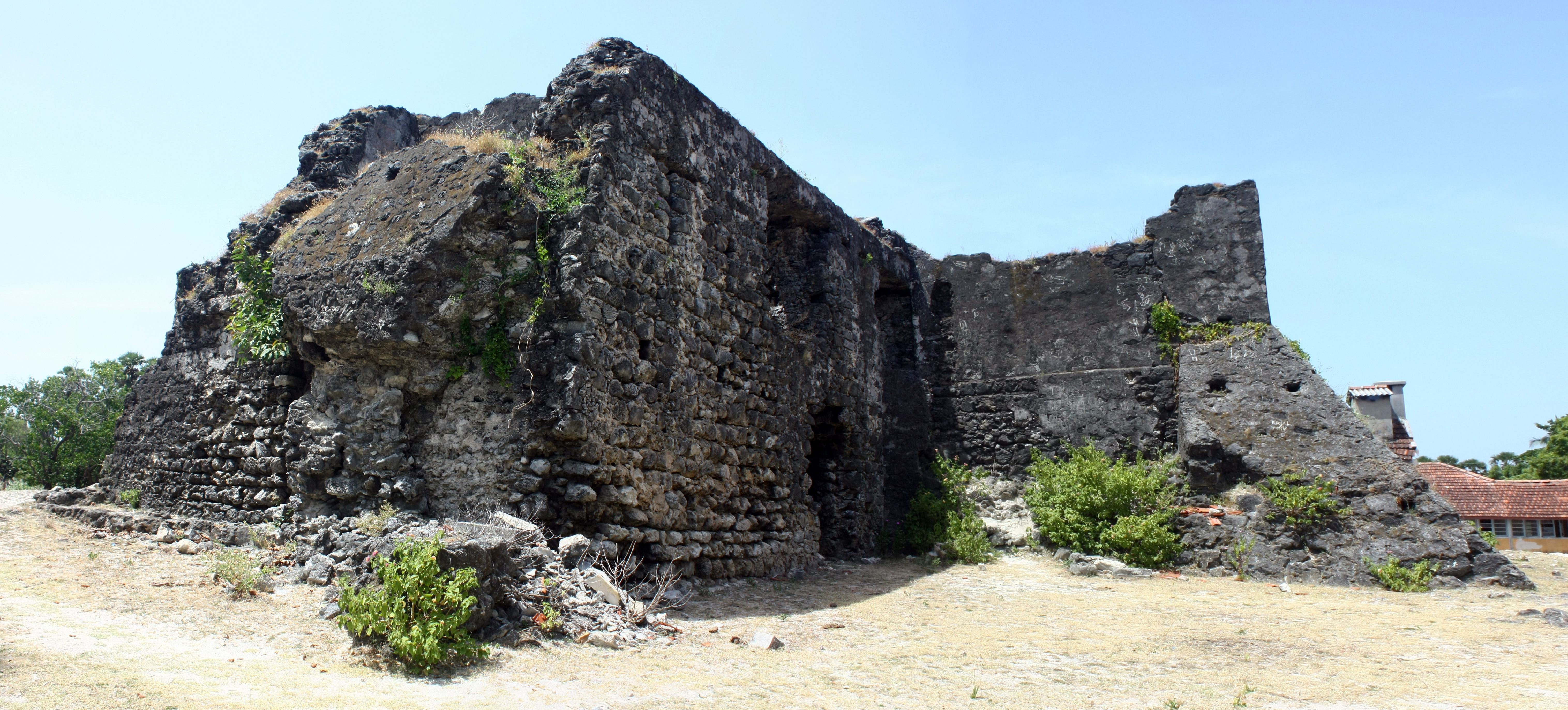 Delft Island fort (Meekaman or Meegaaman fort)